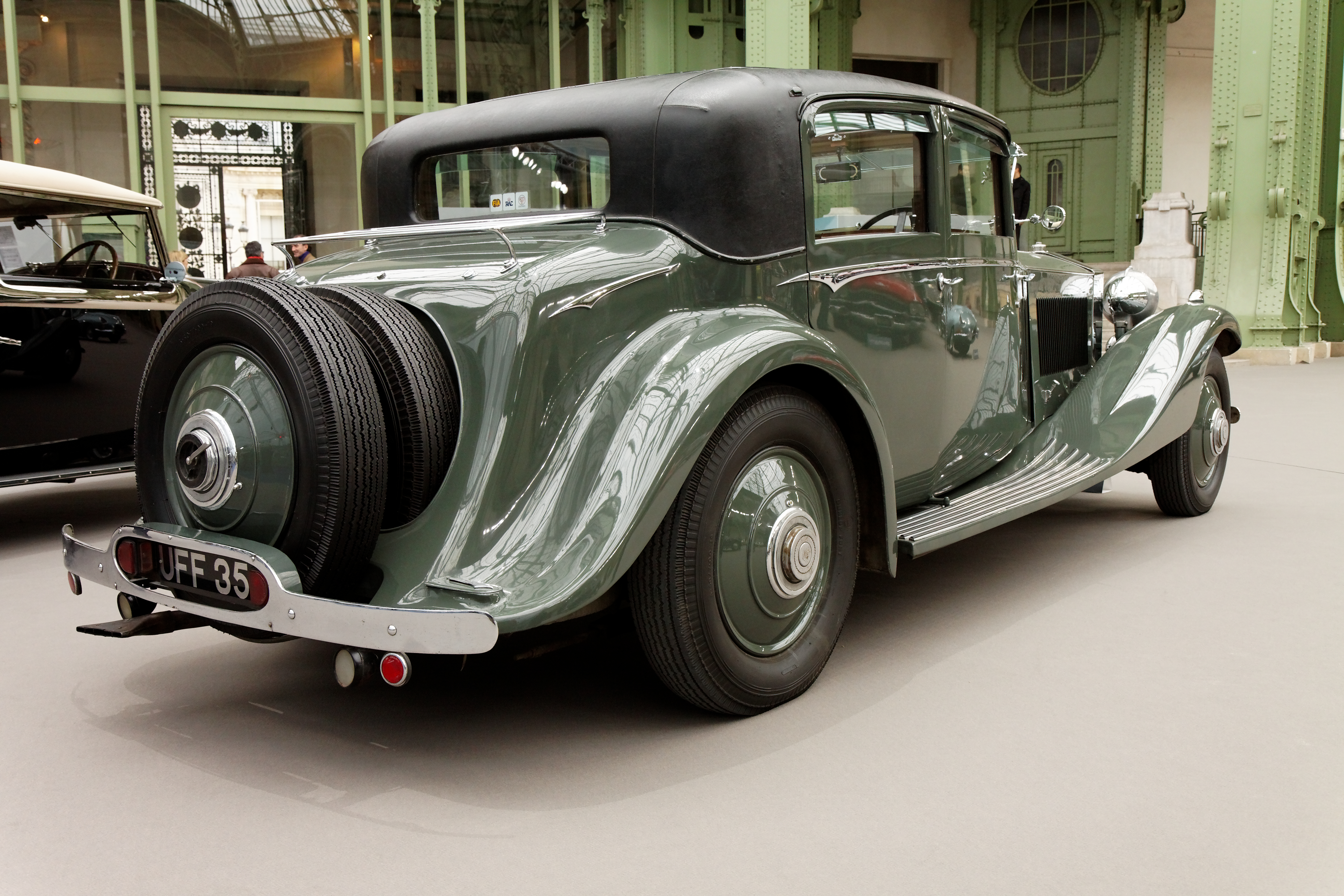 The making of this document was supported by Wikimédia France. (Submit your project!)